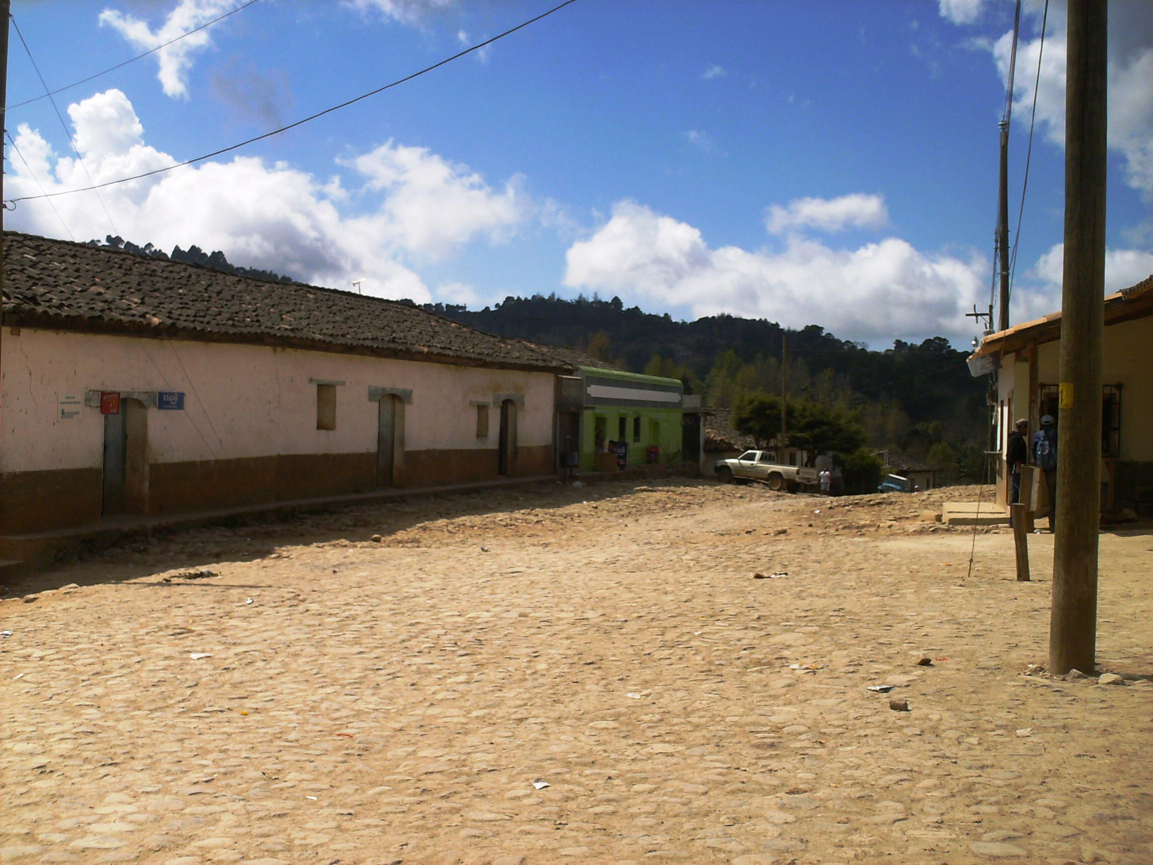 San Andrés, municipality in the Honduran department of Lempira.